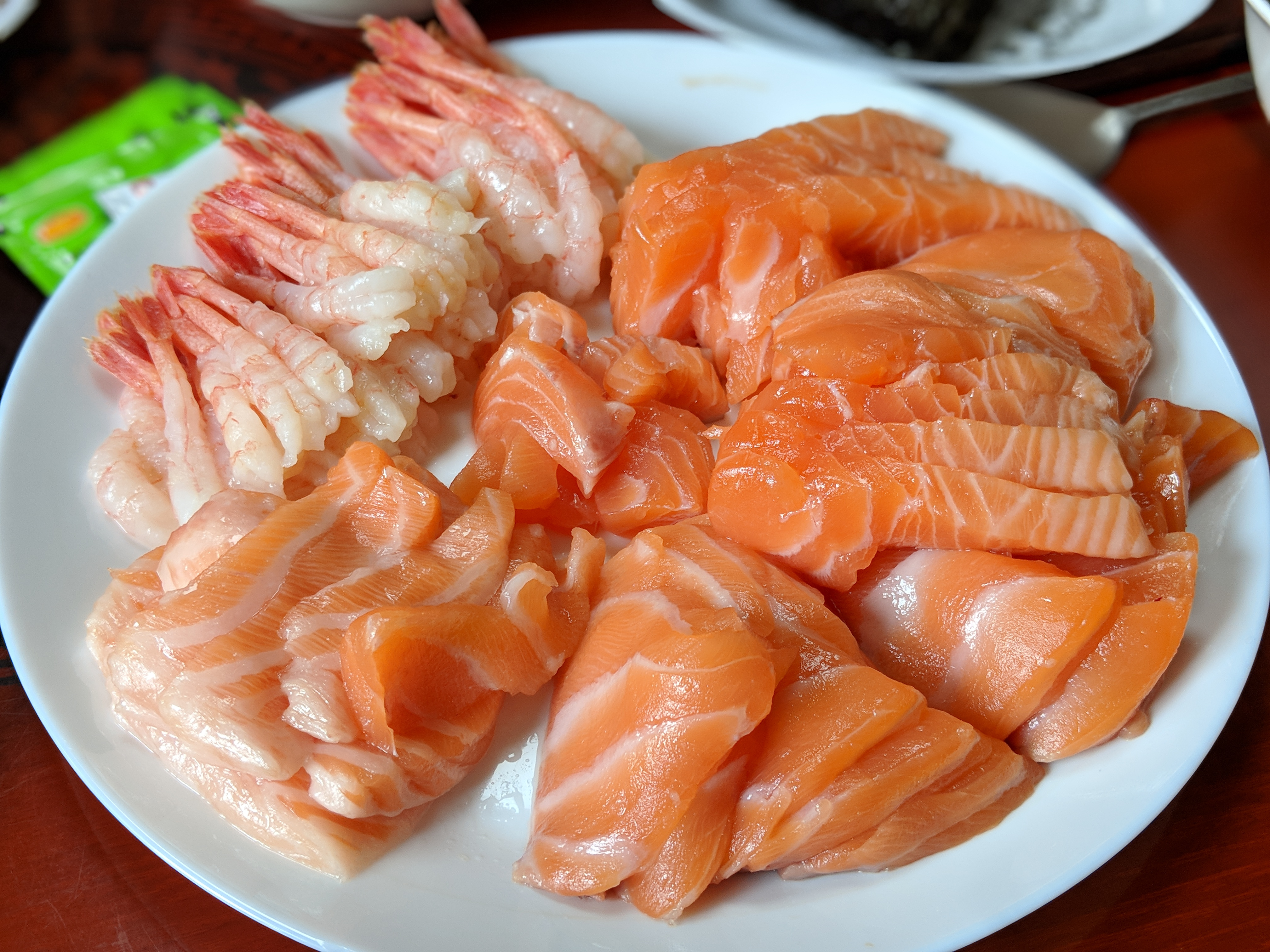 Salmon and shrimp sashimi as a home lunch. Yum!